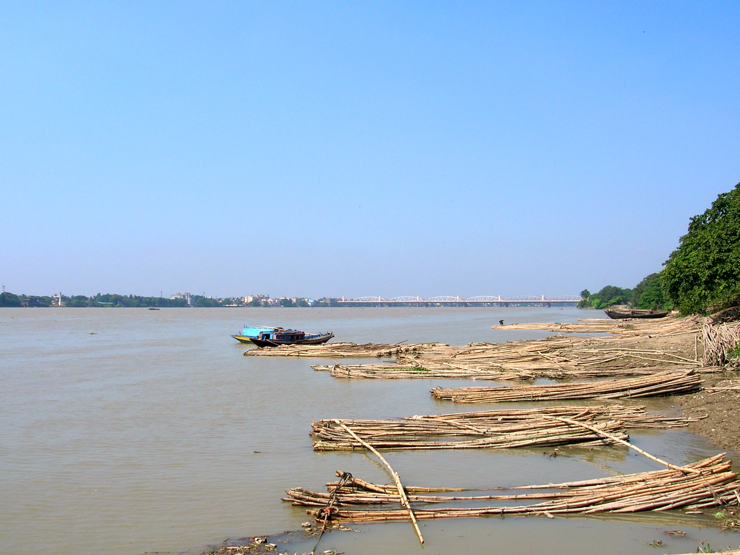 River Hoogly in Baranagar, West Bengal